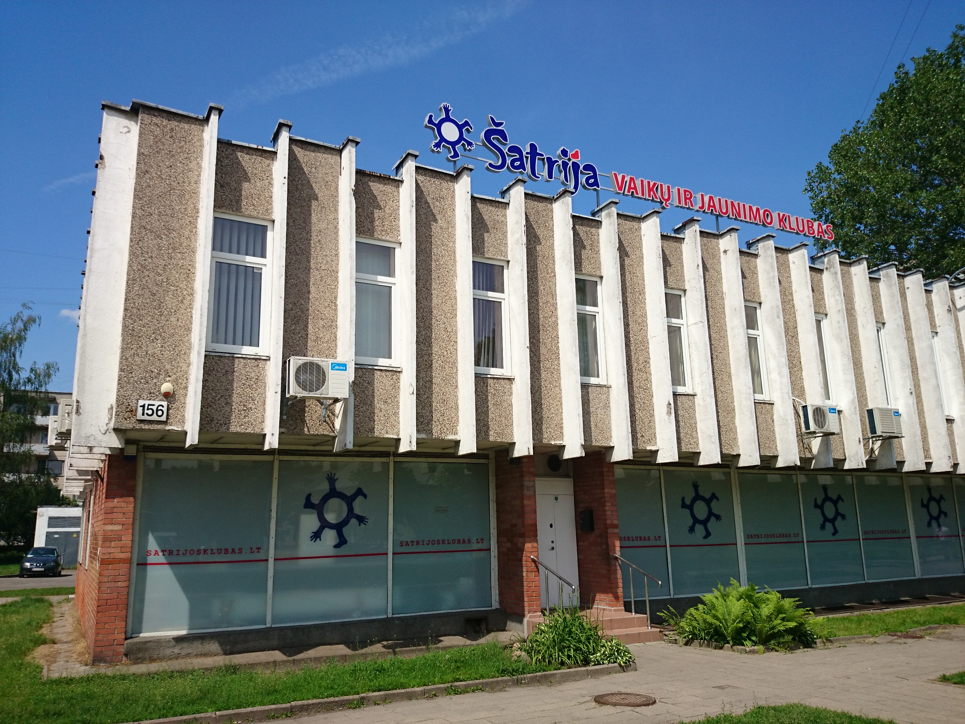 Klubas Šatrija